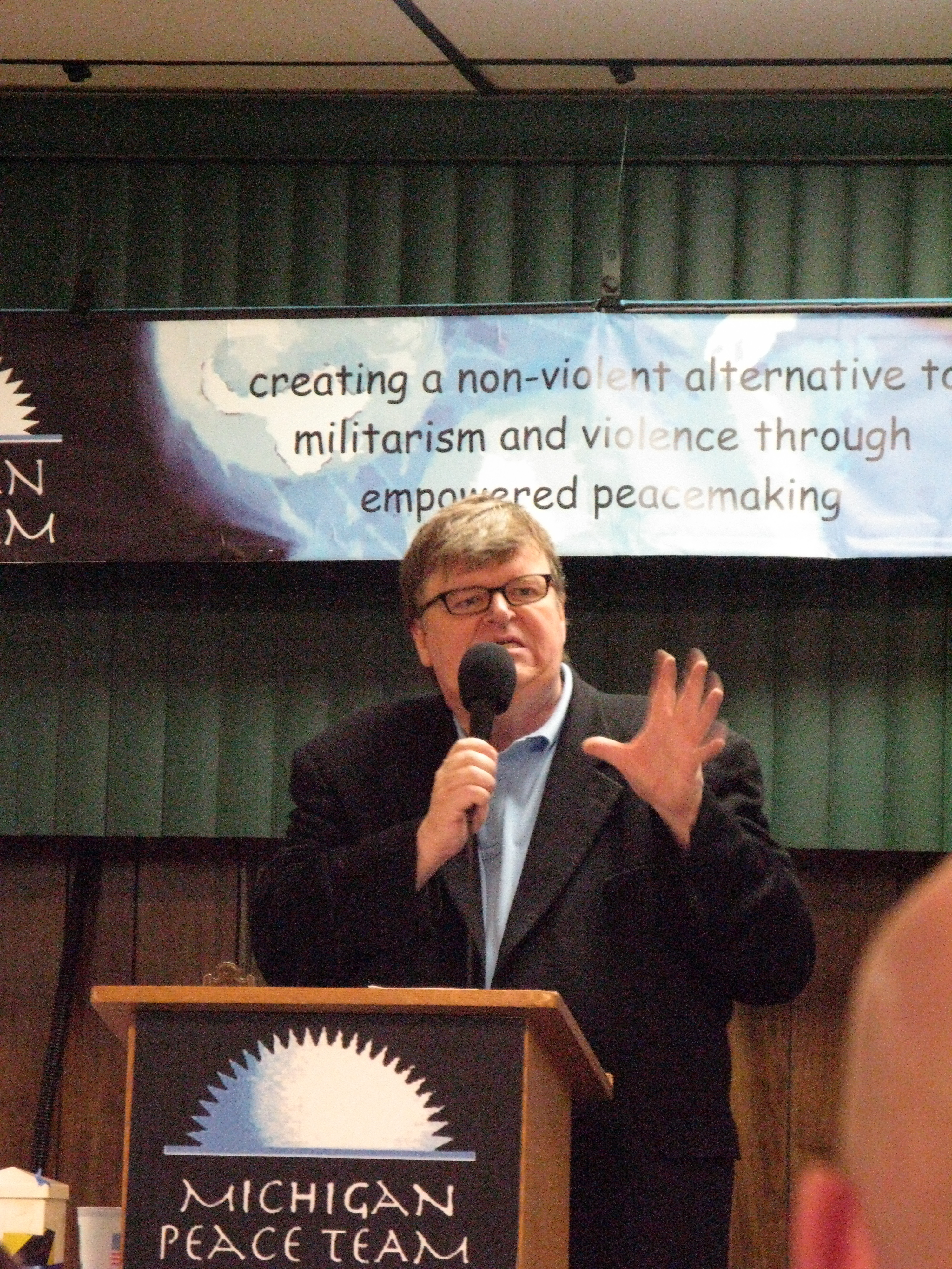 This photo shows Michael Moore speaking at a podium during an inaugural 2009 "signature event" held by Michigan Peace Team (now Meta Peace Team)("MPT"). MPT's motto can be seen in the background, and its logo hangs from the podium.